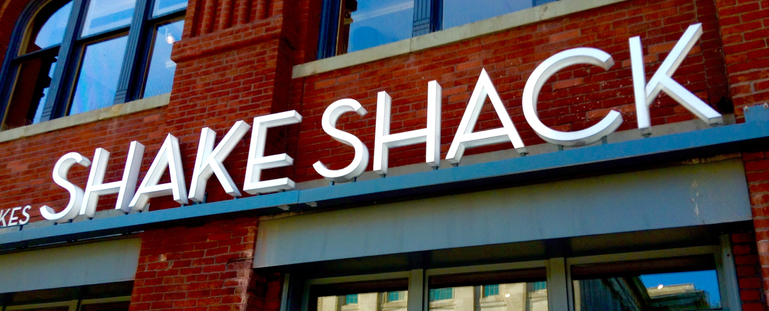 Intended to show the typeface Neutraface. Shake Shack logo